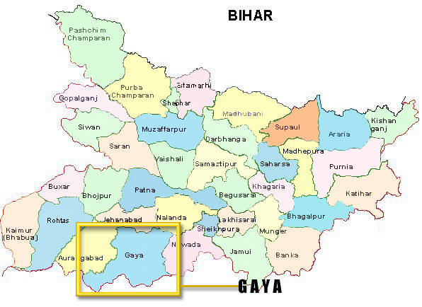 Location